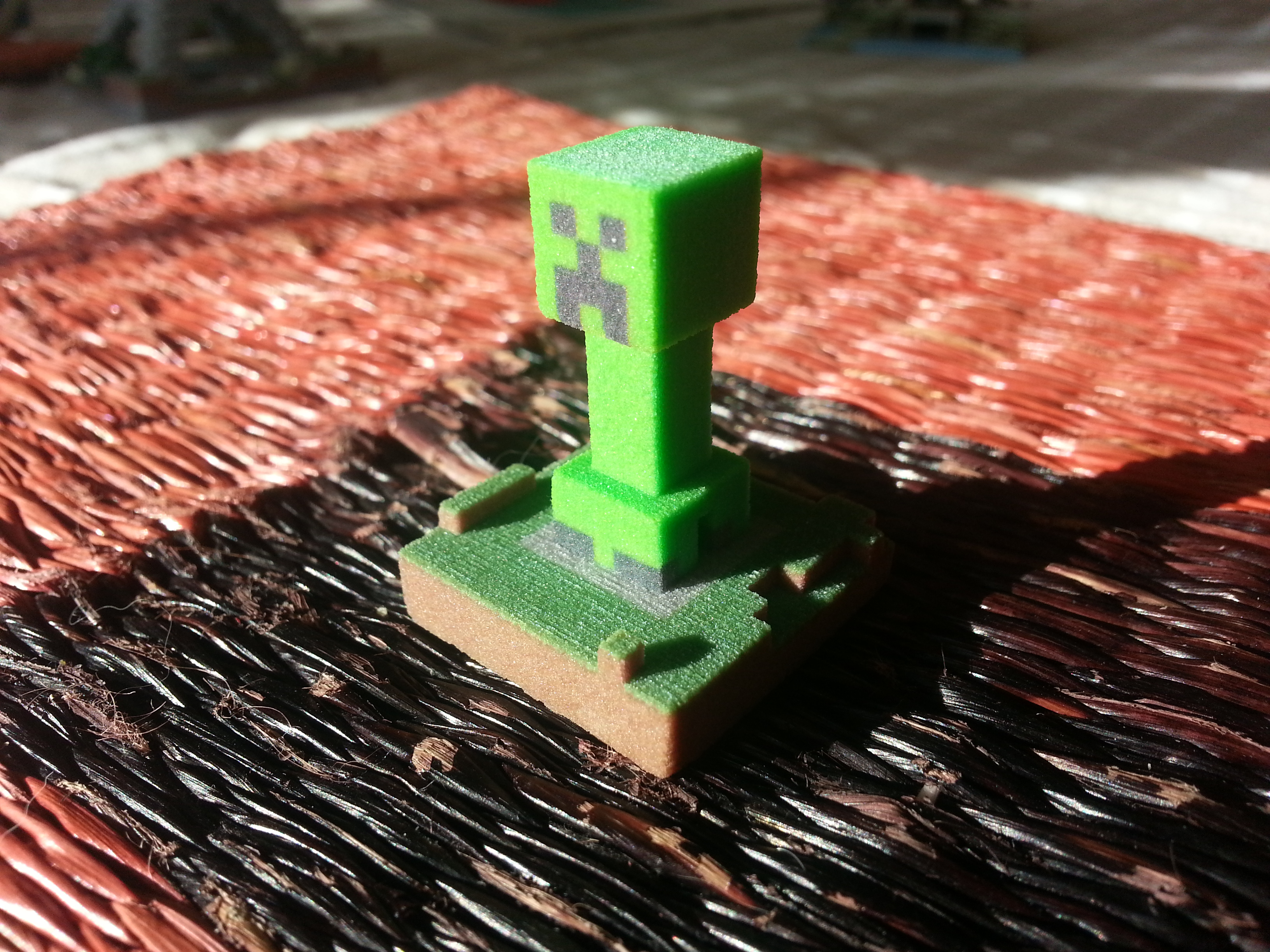 Please don't make me spend my rental deposit, Mr. creeper.